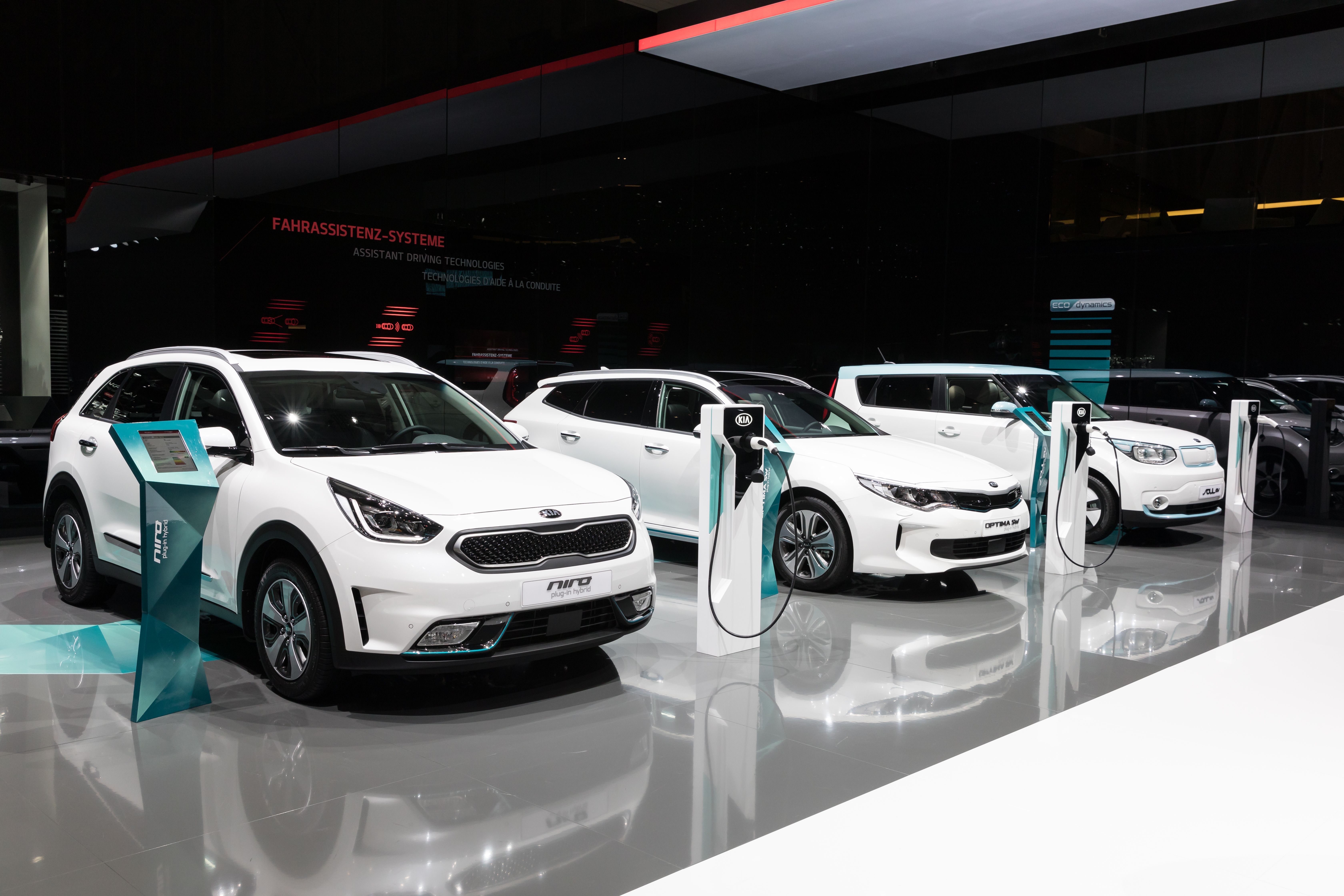 Geneva International Motor Show 2018